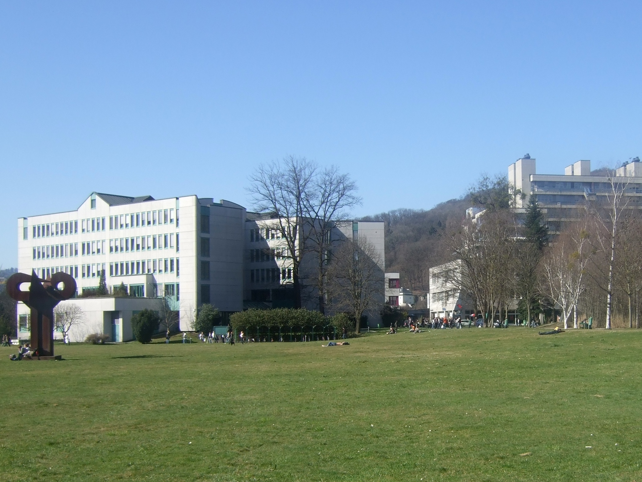 Some of the buildings on the campus of the Johannes Kepler University of Linz, most notably: Management Center (Managementzentrum), Bank Building (Bankengebäude) and behind the trees, the "TNF Tower" (Tower of the Faculty of Engineering and Sciences, TNF-Turm)